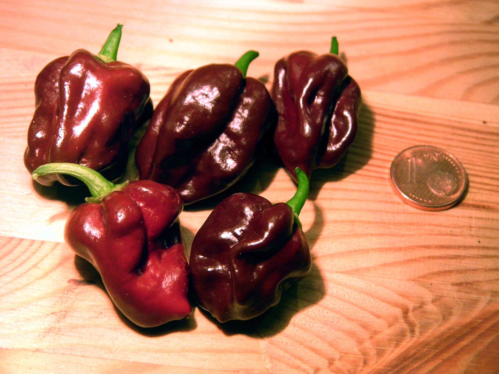 Ripe fruits of Capsicum chinense cv. 'Chocolate Habanero'